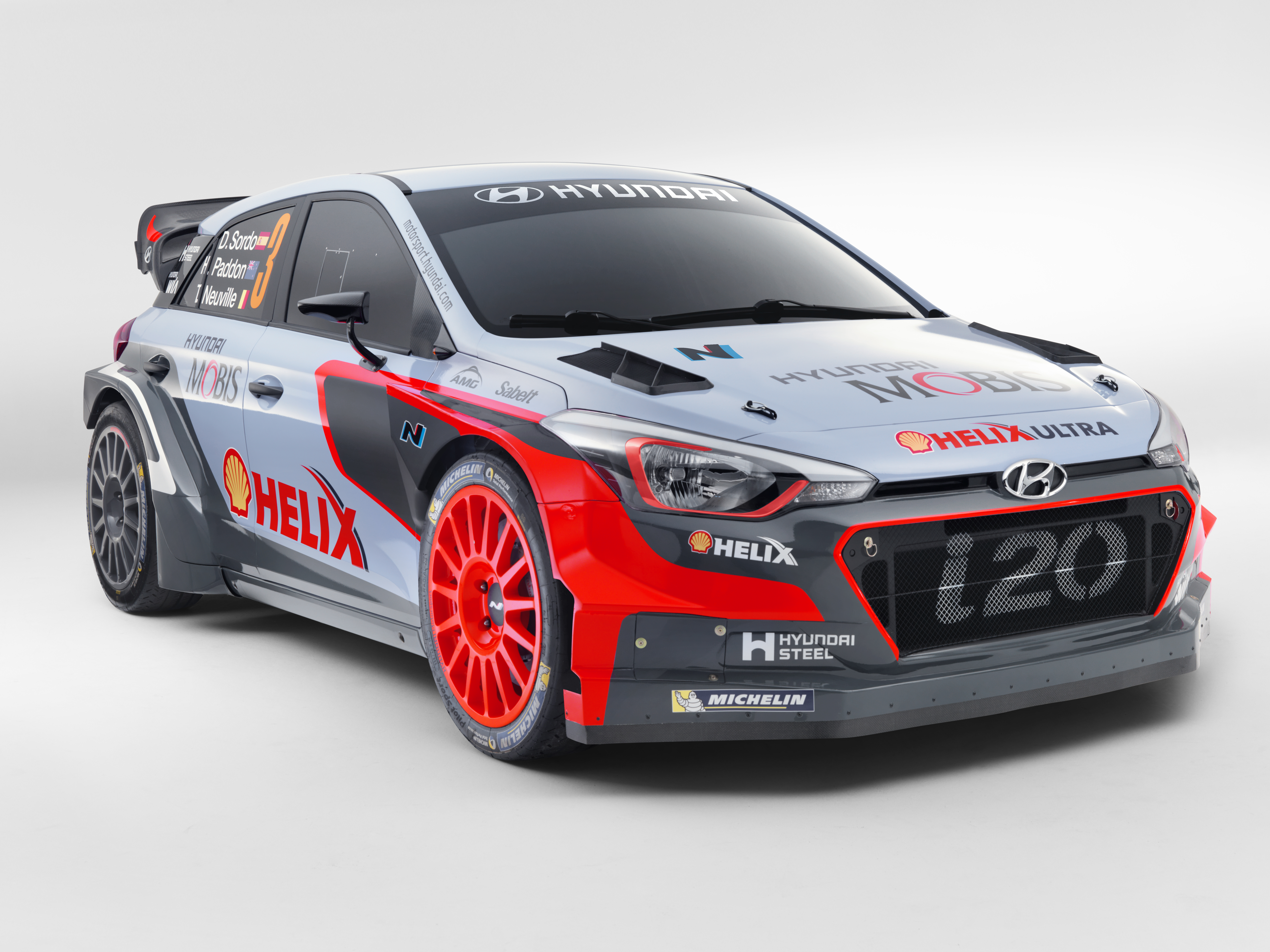 The New Generation Hyundai i20 WRC 2016, set to compete in the 2016 World Rally Championship season for Hyundai Motorsport.